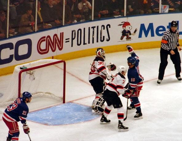 Photo by Troy Parla, Sean Avery, Martin Brodeur, 2008 Playoffs, Rangers vs. Devils, Sean Avery decides to face Brodeur while screening him, which leads to a rule change by the NHL. April 13, 2008. At Madison Square Garden.